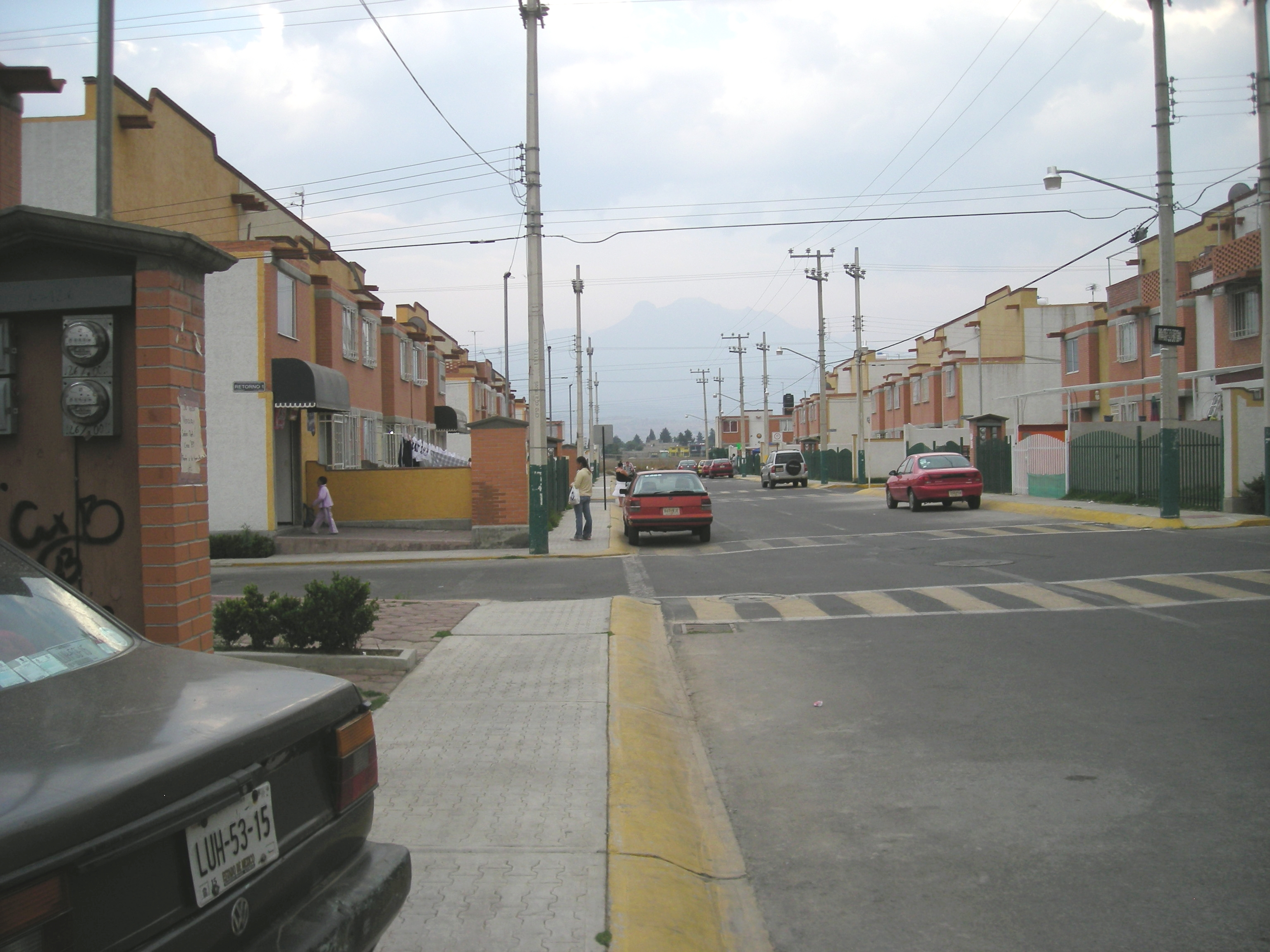 Street scene in the Los Alamos subdivision located in the Municipality of Chalco in Mexico State